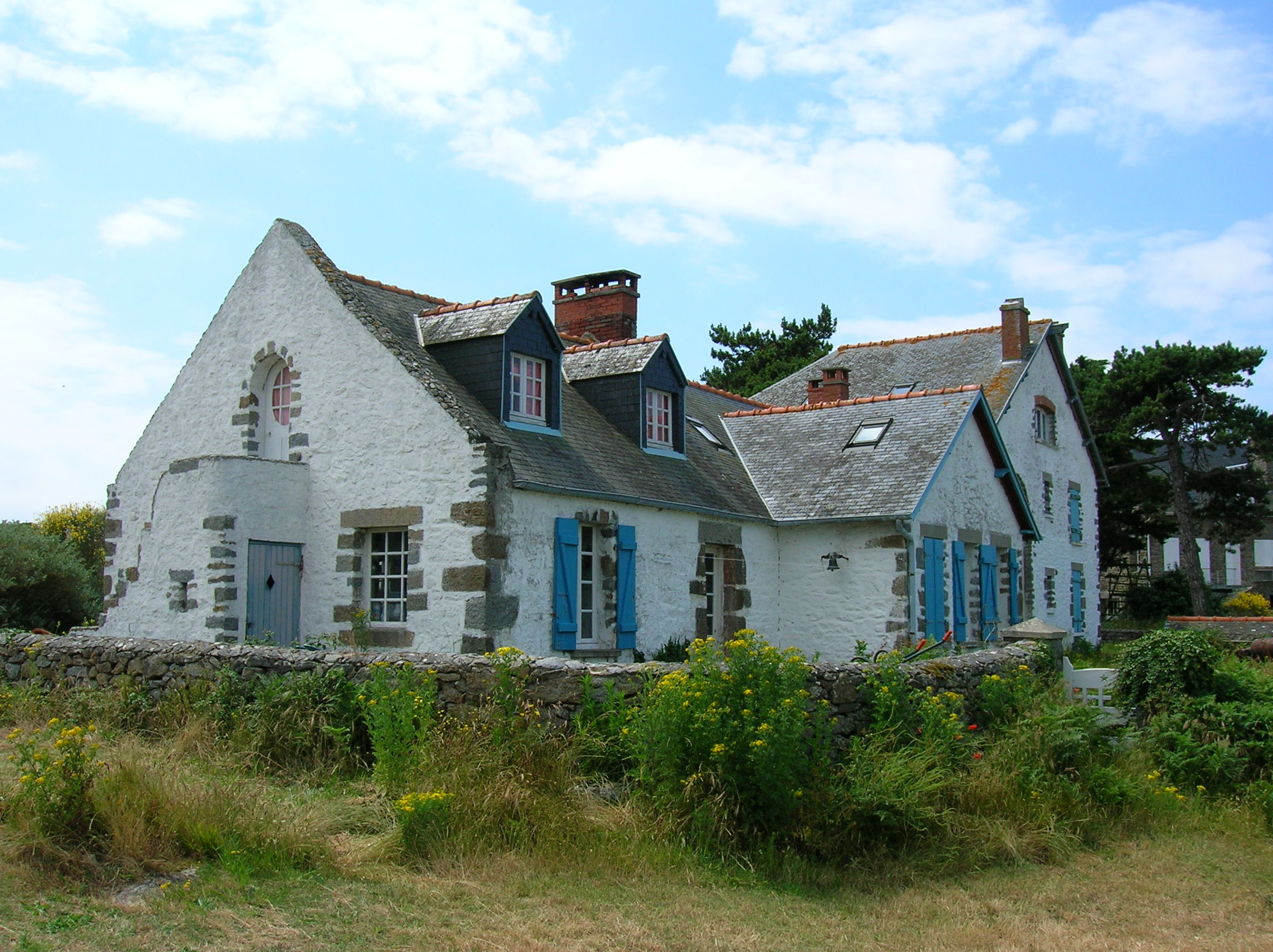 The house of the french writer Marin-Marie on Chausey Island, Manche, France